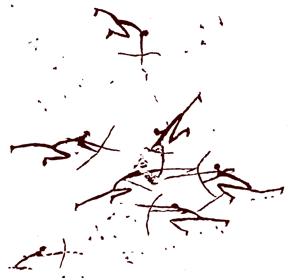 Cave painting of a battle between archers, Cueva del Roure, Morella la Vella, Castellón, Valencia, Spain. Dated to the late Mesolithic, dubbed the "earliest surviving image of combat" (although no precise dating is possible). Literature: Keith F. Otterbein, How War Began (2004), p. 72f. Žiga Šmit, "Archery by the Apaches – implications of using the bow and arrow in hunter-gatherer communities", Documenta Praehistorica XLIII (2016), p. 516.